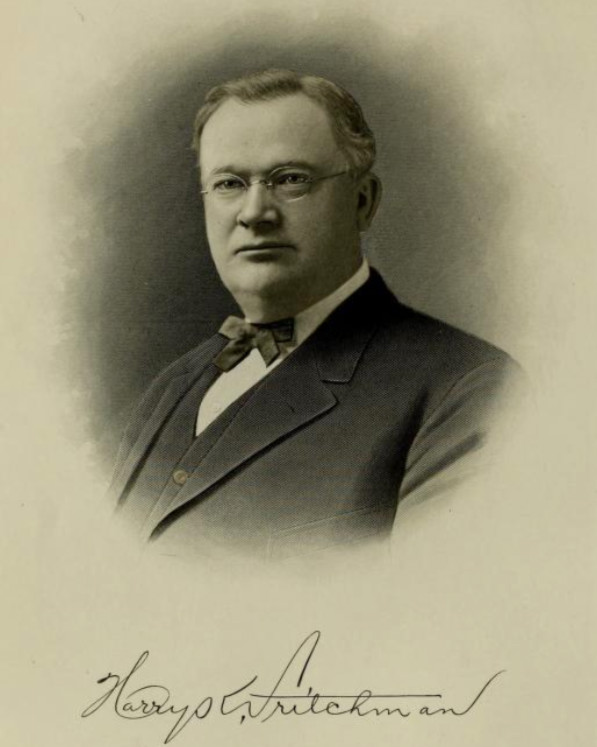 Harry K. Fritchman served as mayor of Boise, Idaho, 1911-12. Fritchman arrived in Boise in 1900 and opened a merchandise brokerage firm, and he was considered the first commercial traveler to be headquartered in Boise.